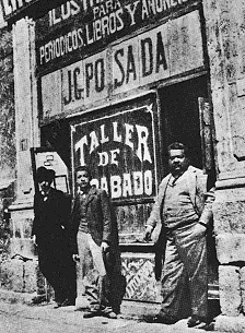 Image by José Guadalupe Posada, Mexican engraver, scanned by Jack Child on 22 December 2006